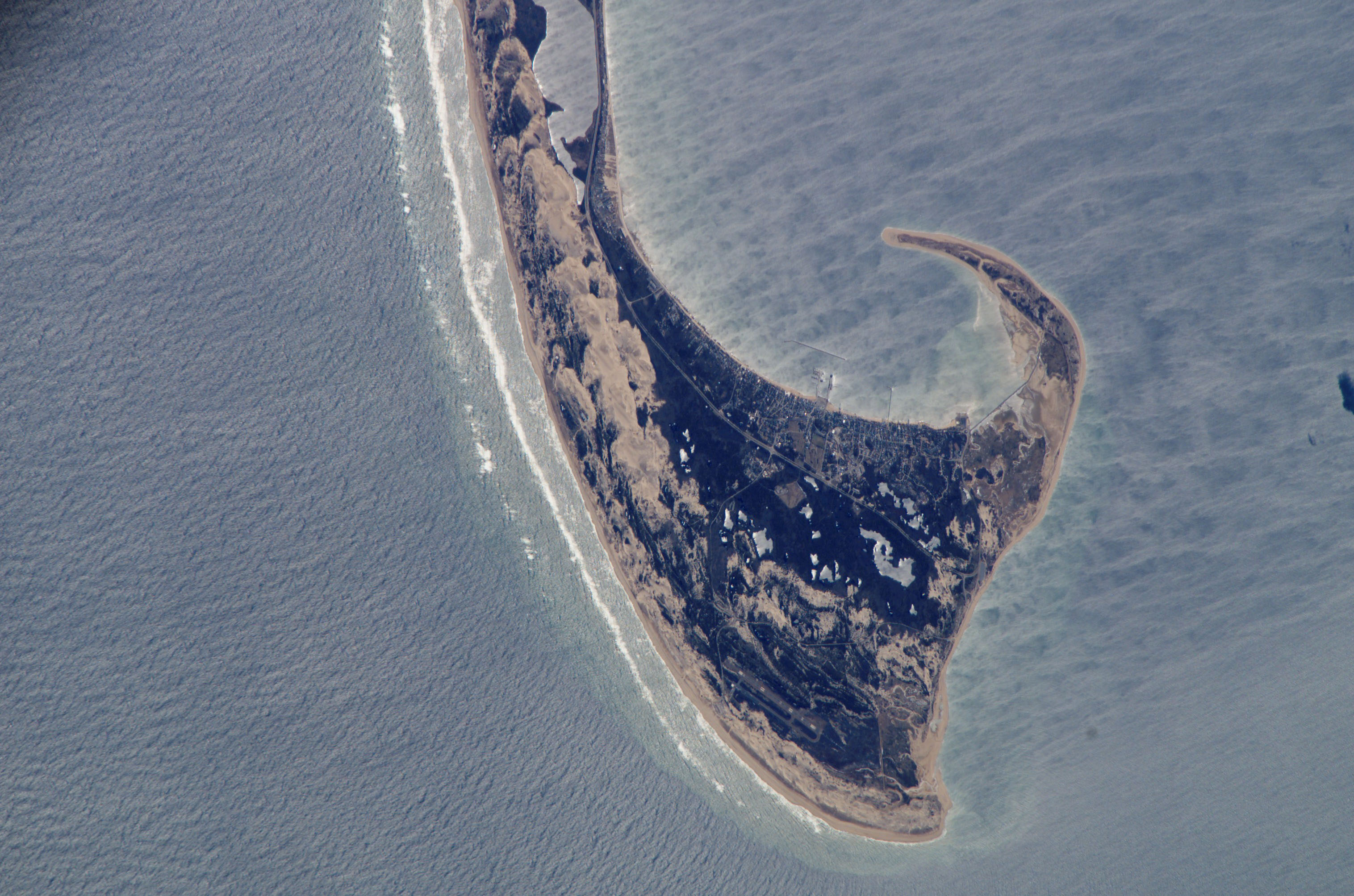 Compared to Old World settlements like Rome and Alexandria, Egypt, Cape Cod is fairly young. Cape Cod’s geology is fairly young as well; the major forces shaping the landscape all happened within the last 25,000 years, and the Provincetown Spit is even younger - having formed over the last 6,000 years from oceanic transports. This astronaut photograph, taken from the international space station, shows the northernmost parts of the Cape Cod National Seashore, also known as Provincetown Spit. The orientation of this photograph differs from most maps, with the direction of north to the lower left. This image is one of astronaut Leroy Chiao's favorite photographs.